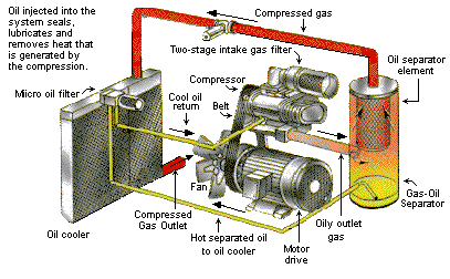 This diagram of a rotary screw compressor was obtained on March 23rd, 2007 from a USA government agency website at The diagram was on a page entitled "Federal Energy Management Program (FEMP), Operations and Maintenance, Positive Displacement Compressors, Rotary Screw". The diagram and the text were too small to be easily legible. So I enlarged it without changing it in any way. I also re-located most of the text and used a larger font so that the text would be more legible. - mbeychok 05:15, 24 March 2007 (UTC)........